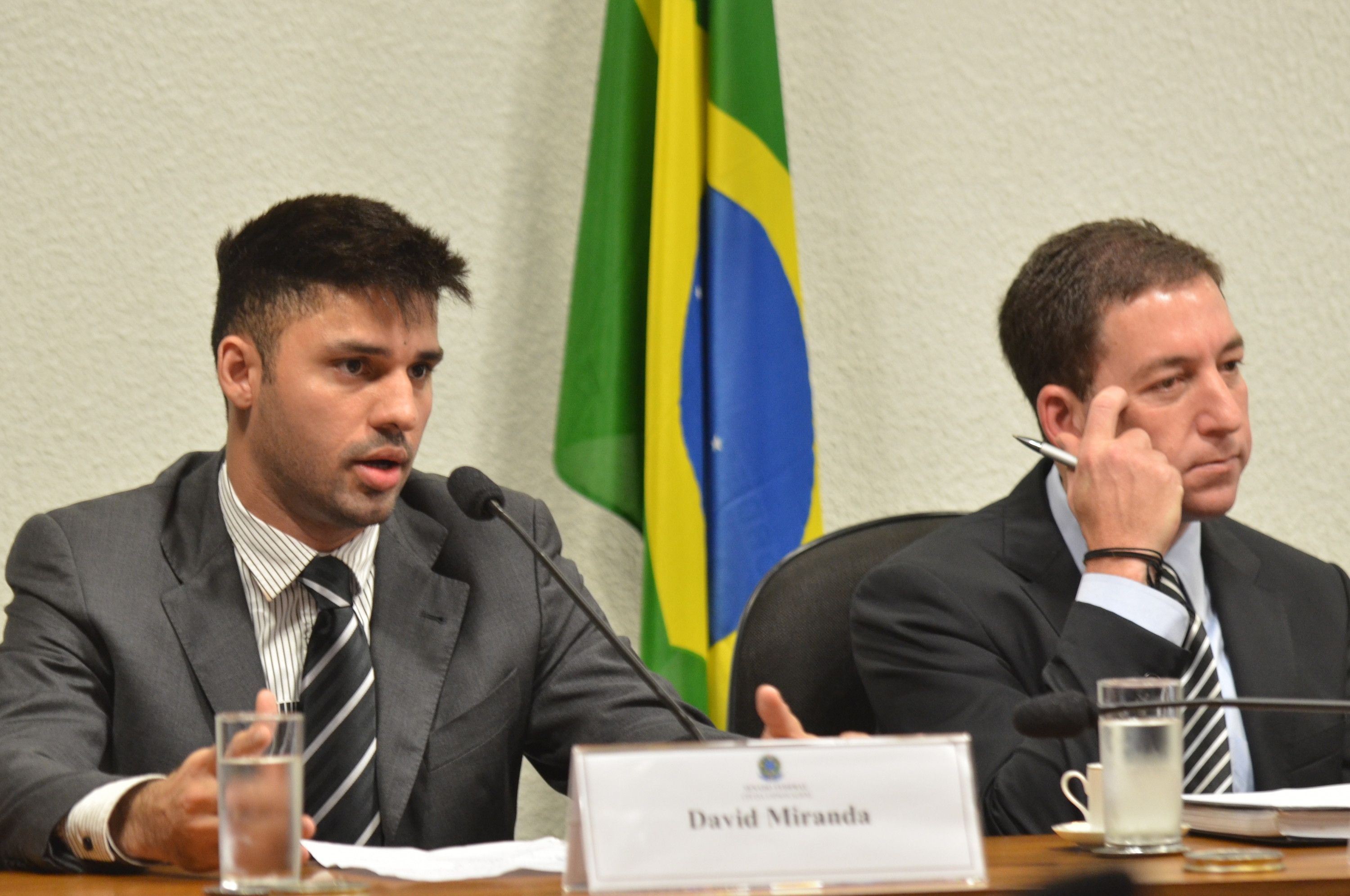 Brasília – The Espionage Parliamentary Inquiry Comission (CPI) hears journalist Glenn Greenwald and his partner, Brazilian David Miranda, on the accusations of espionage on behalf of the U.S. government towards Brazil. L/R: David Miranda and Glenn Greenwald.